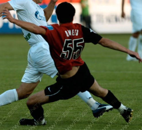 Oleg Dineev in action for FC Khimki